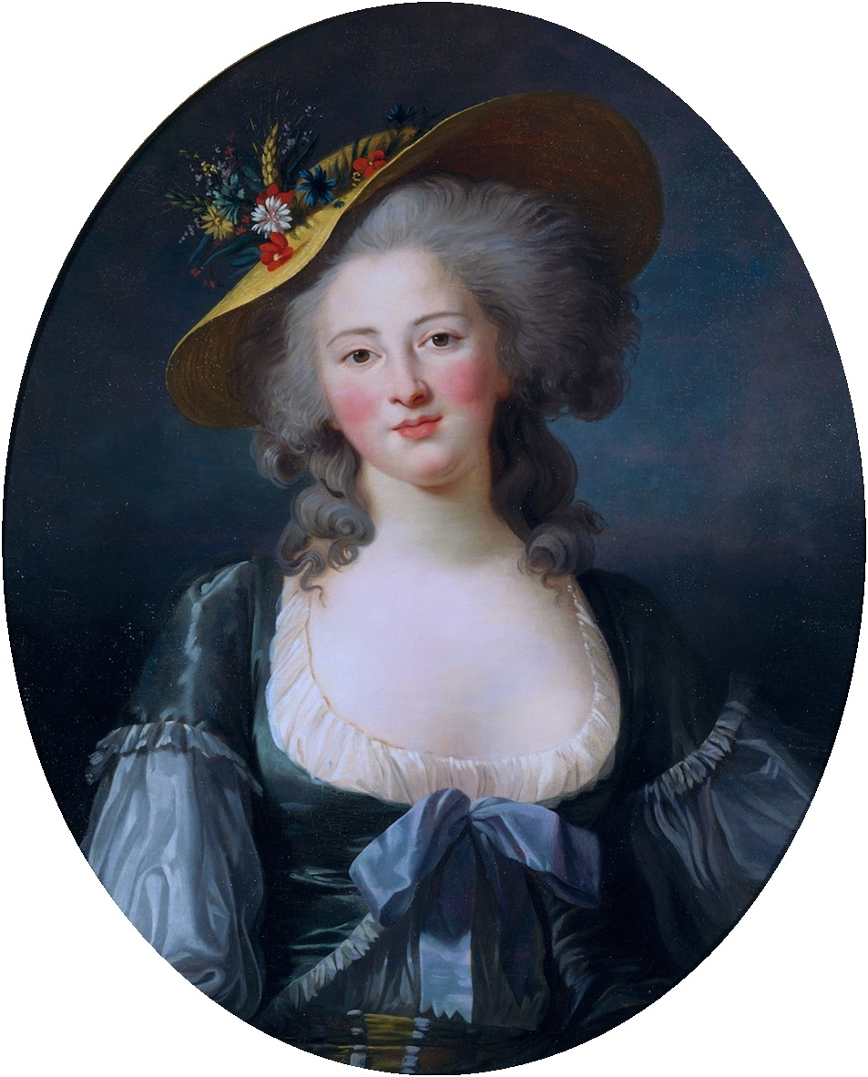 Portrait of Princess Elisabeth of France (1764-1794), Sister of Louis XVI